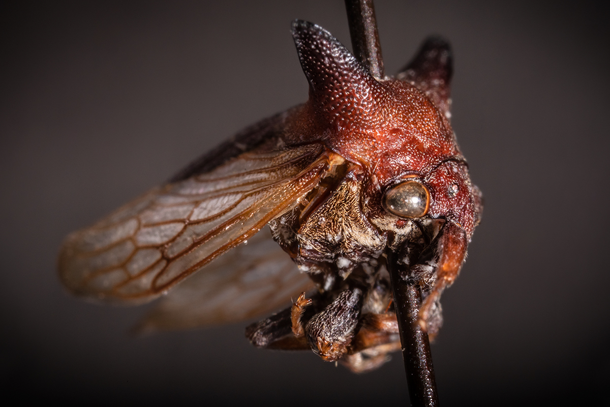 Close-up of newly identified centrotine treehopper named after Lady Gaga and found in Nicaragua.